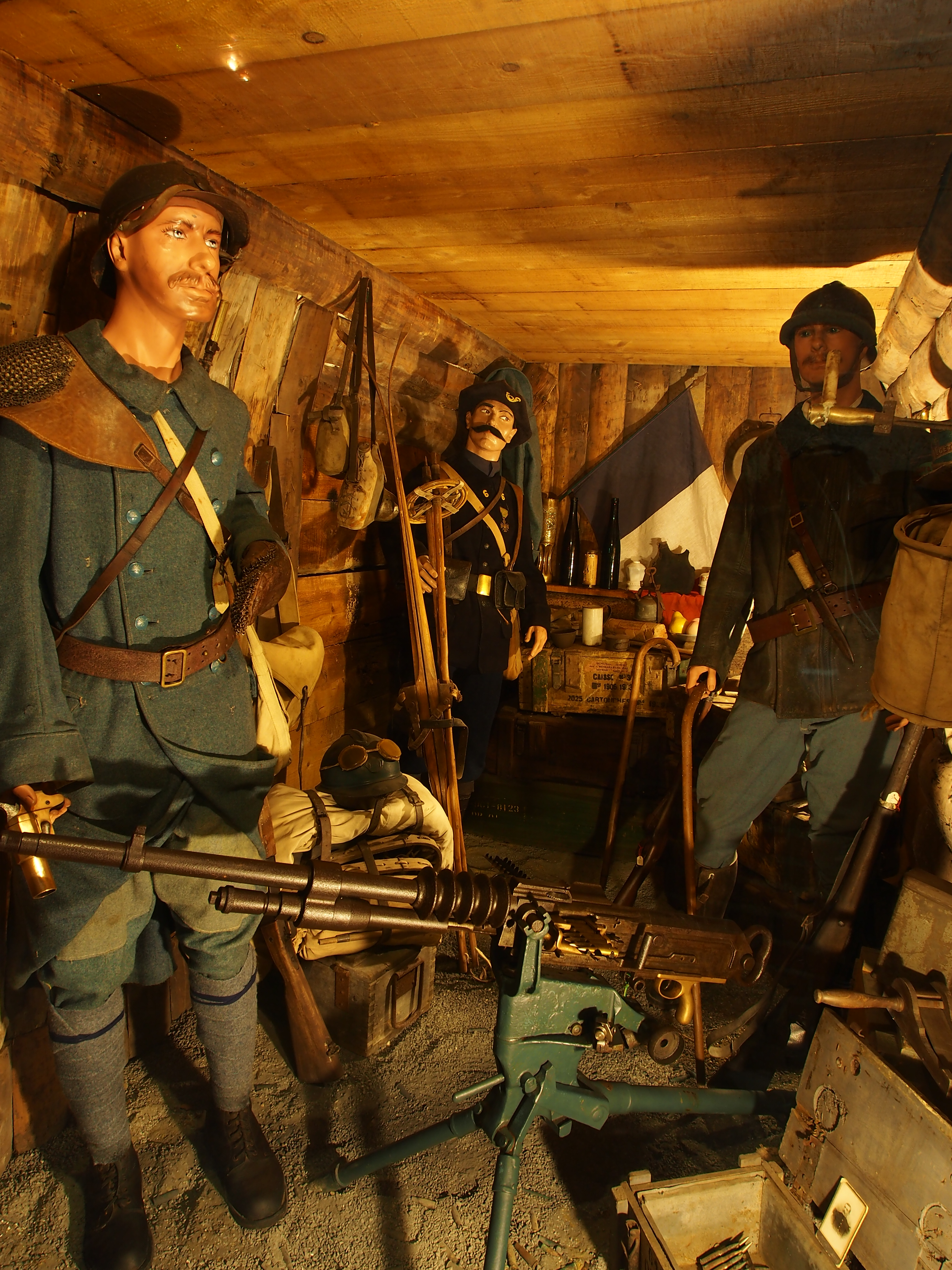 Photographed in the Musée Somme 1916 of Albert (Somme), France.